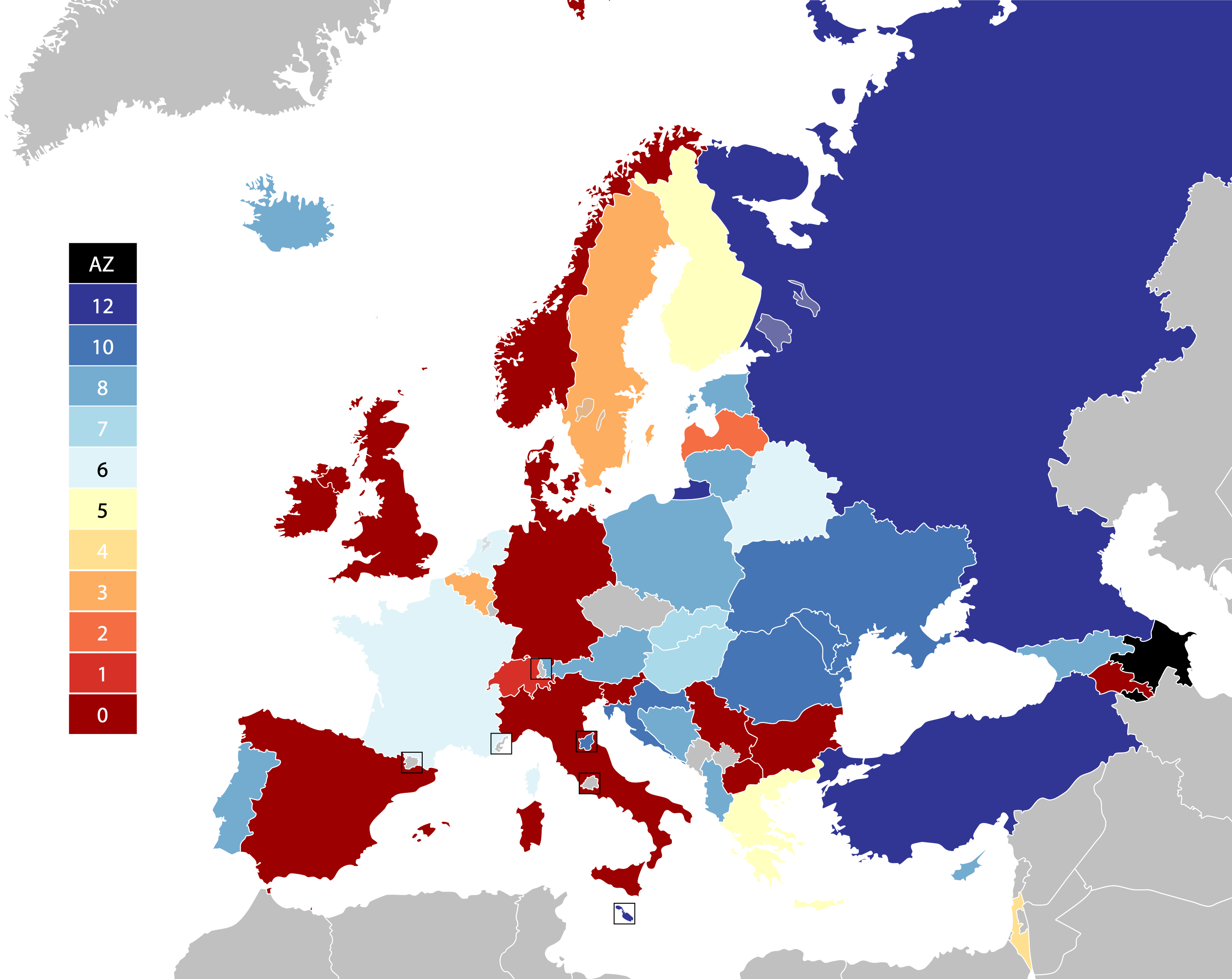 Points allocated to Azəebaijan in the ESC 2011